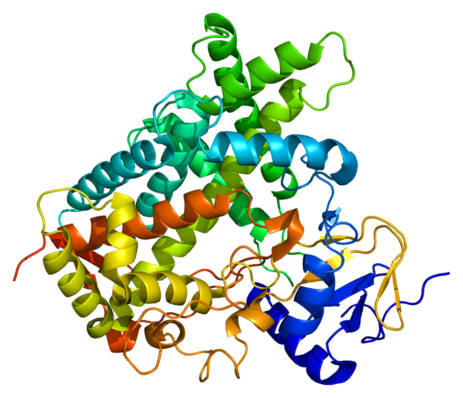 Structure of the CYP2C19 protein. Based on PyMOL rendering of PDB 1r9o.